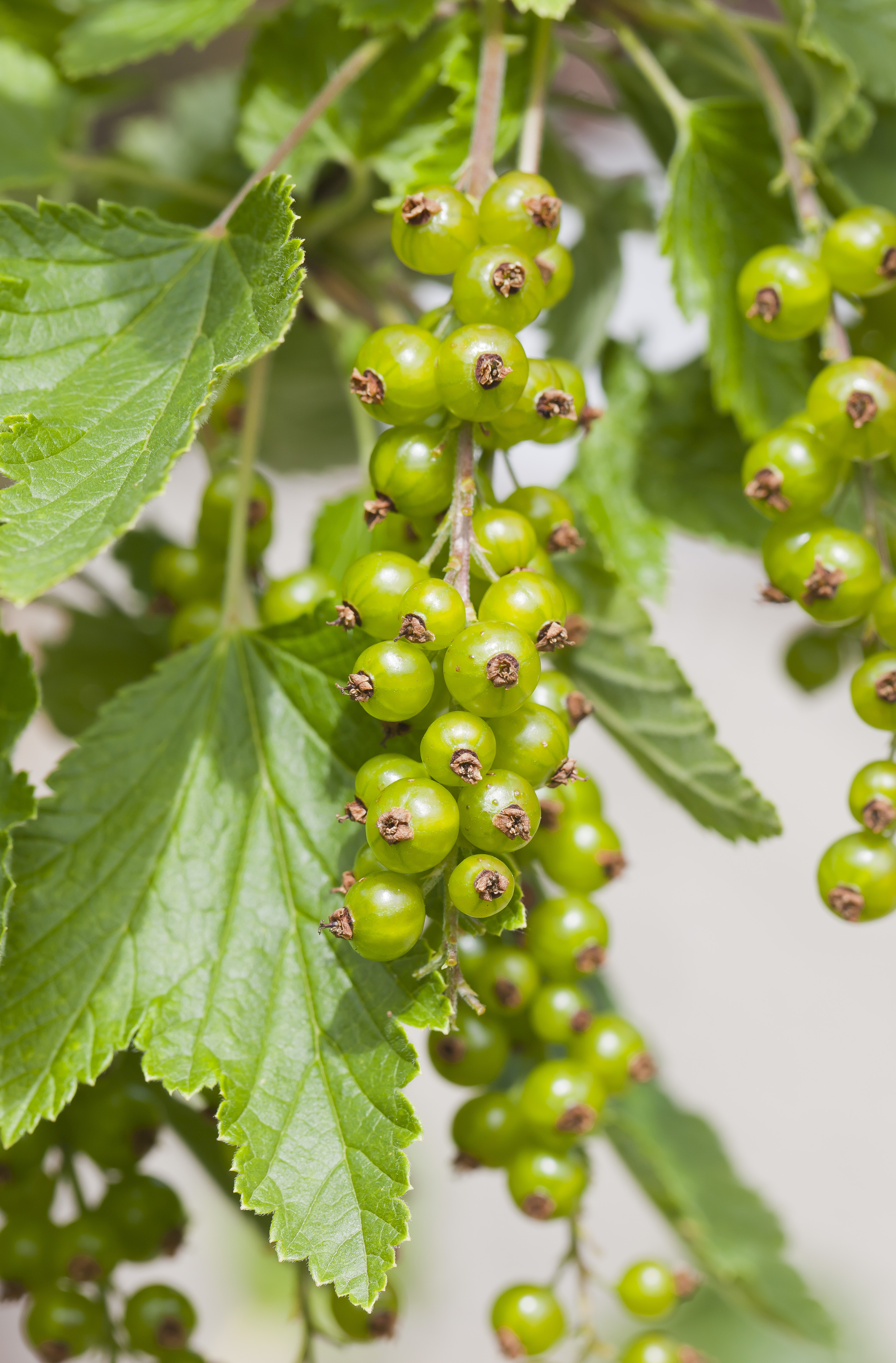 Redcurrant (Ribes rubrum), Munich, Germany